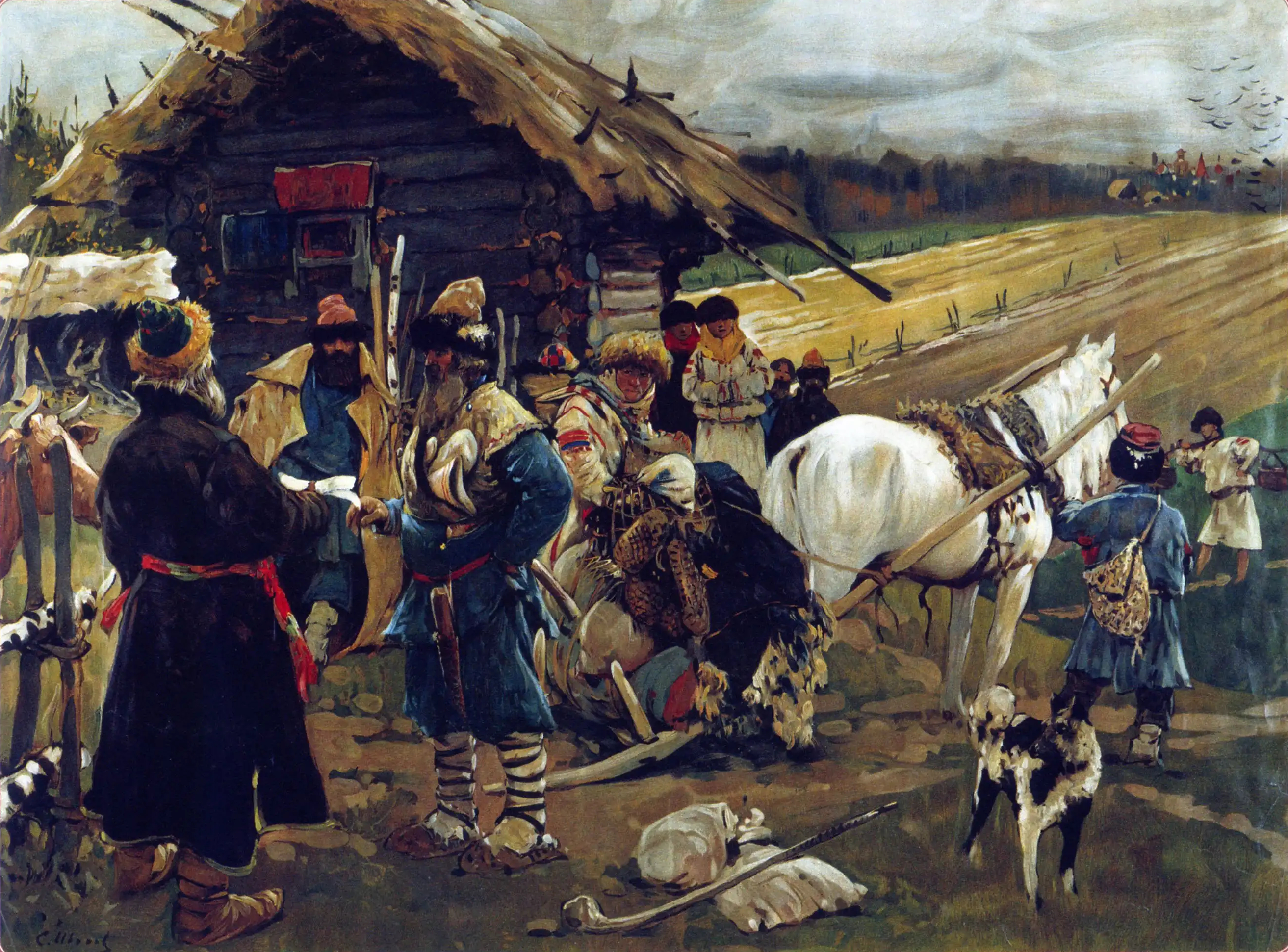 A peasant leaving his landlord on Yuri's Day. Wikidata has entry Q4173673 with data related to this item.